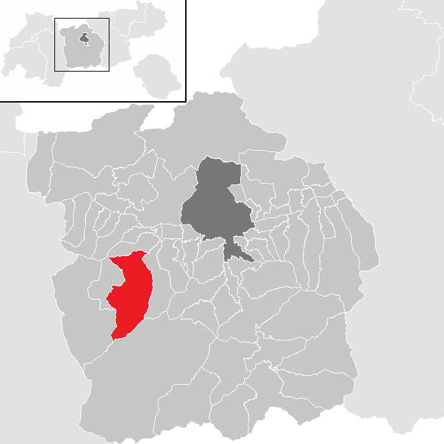 Innsbruck-Land District